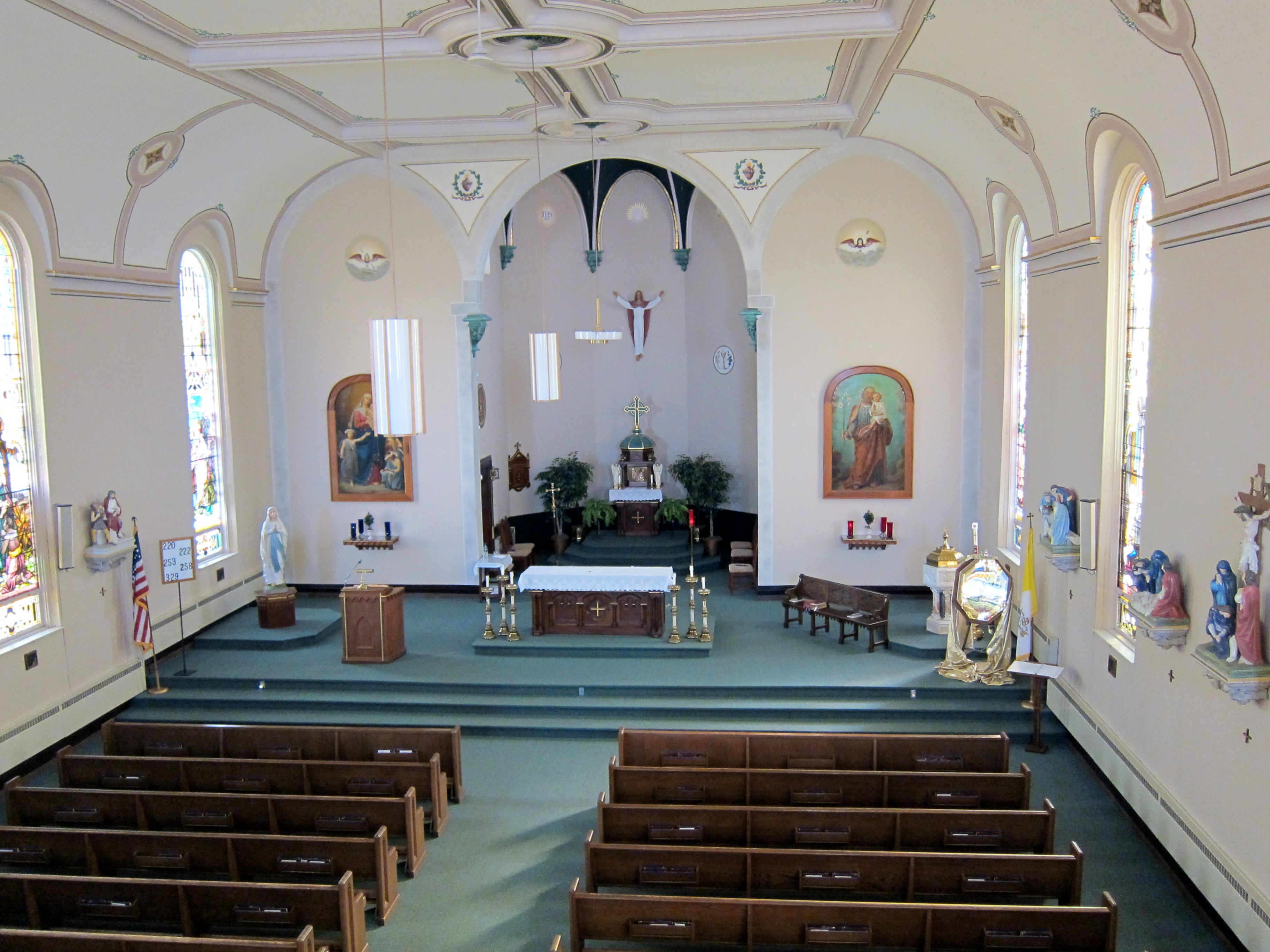 Saint Aloysius Church (Carthagena, Ohio), interior, view of nave from organ loft